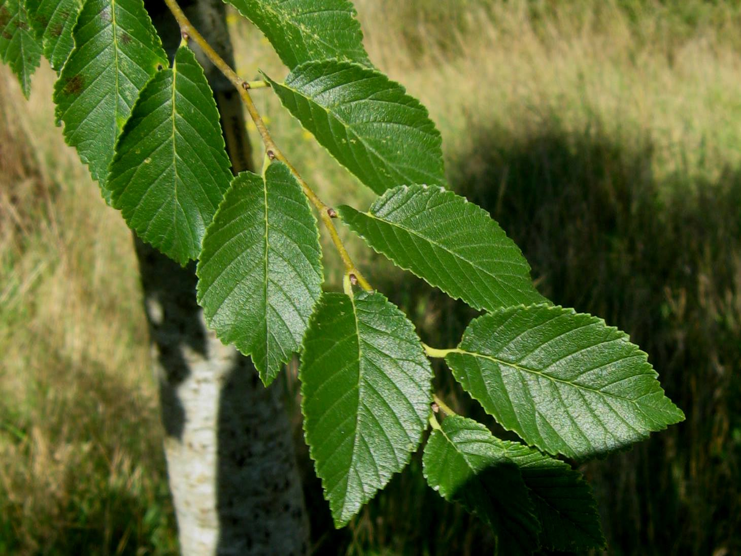 Photo of the leaves of Ulmus 'Fiorente', taken in mid September at Great Fontley, UK